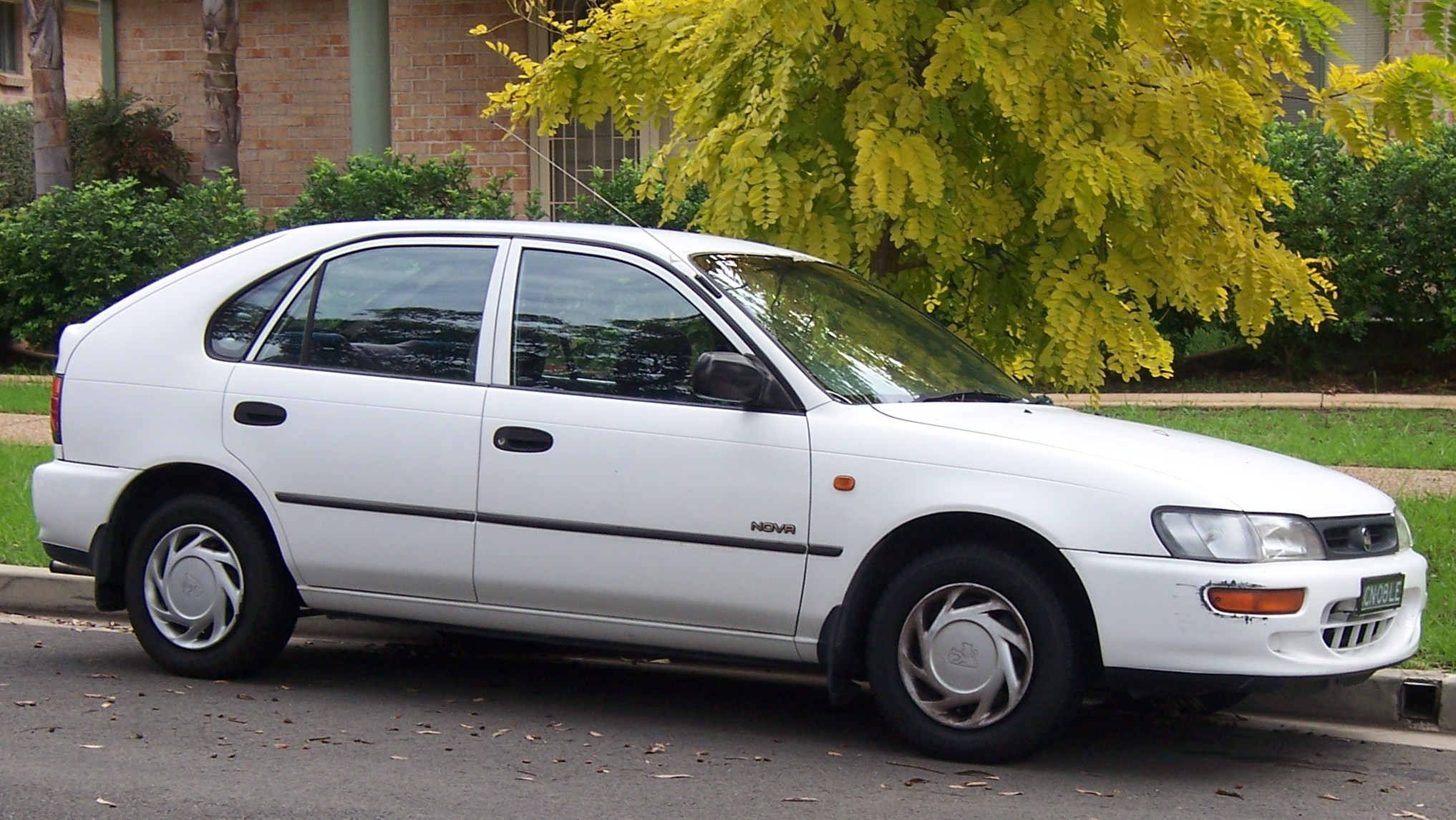 1994–1996 Holden Nova (LG) SLX hatchback. Photographed in Gymea, New South Wales, Australia.